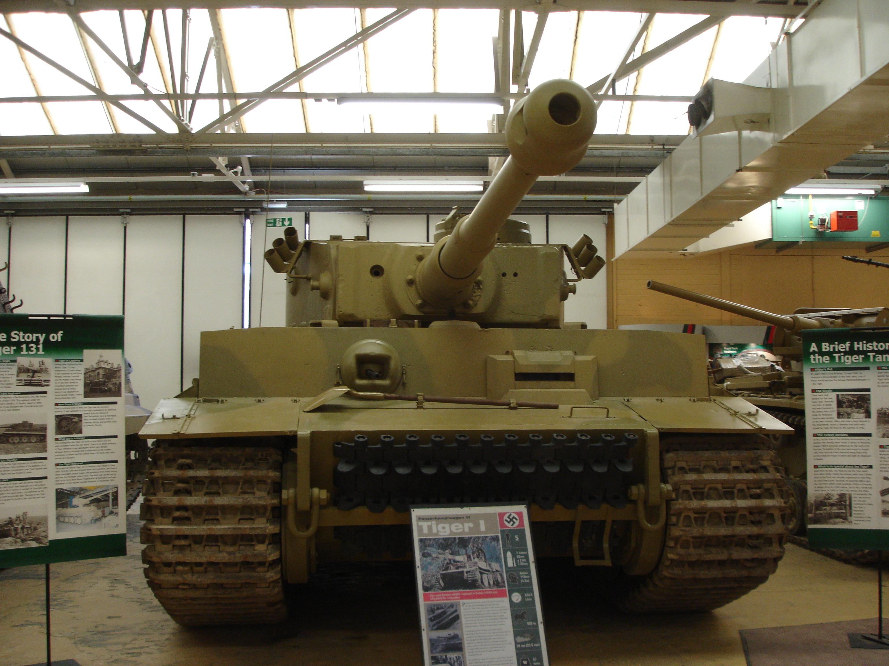 Tiger I tank at Bovington Tank Museum.